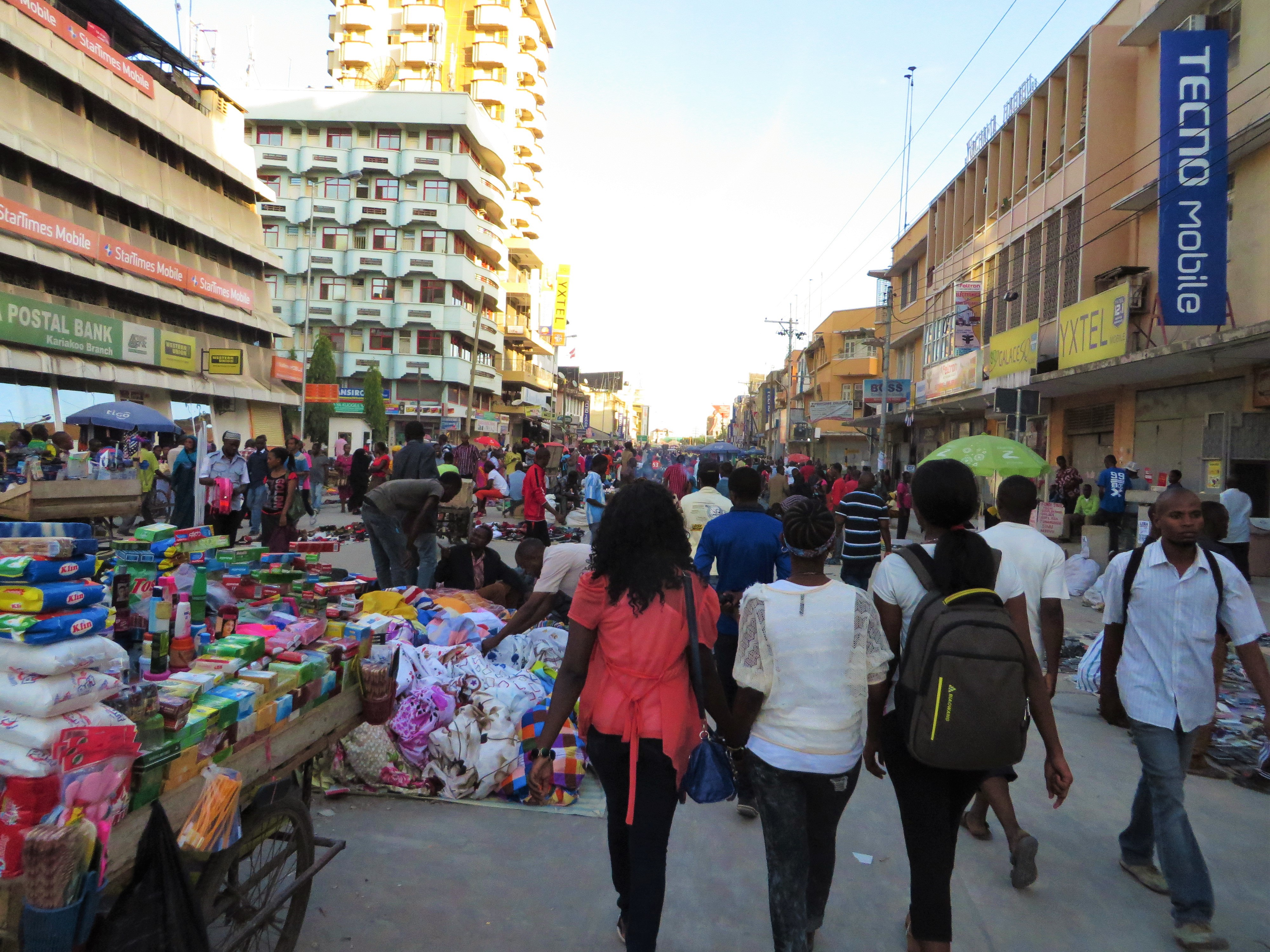 Close view of the Kariakoo market in Dar es Salaam